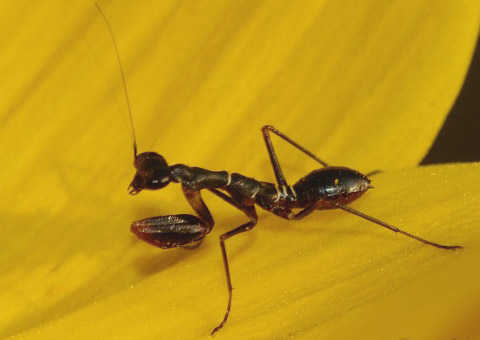 Newly-hatched Acromantis